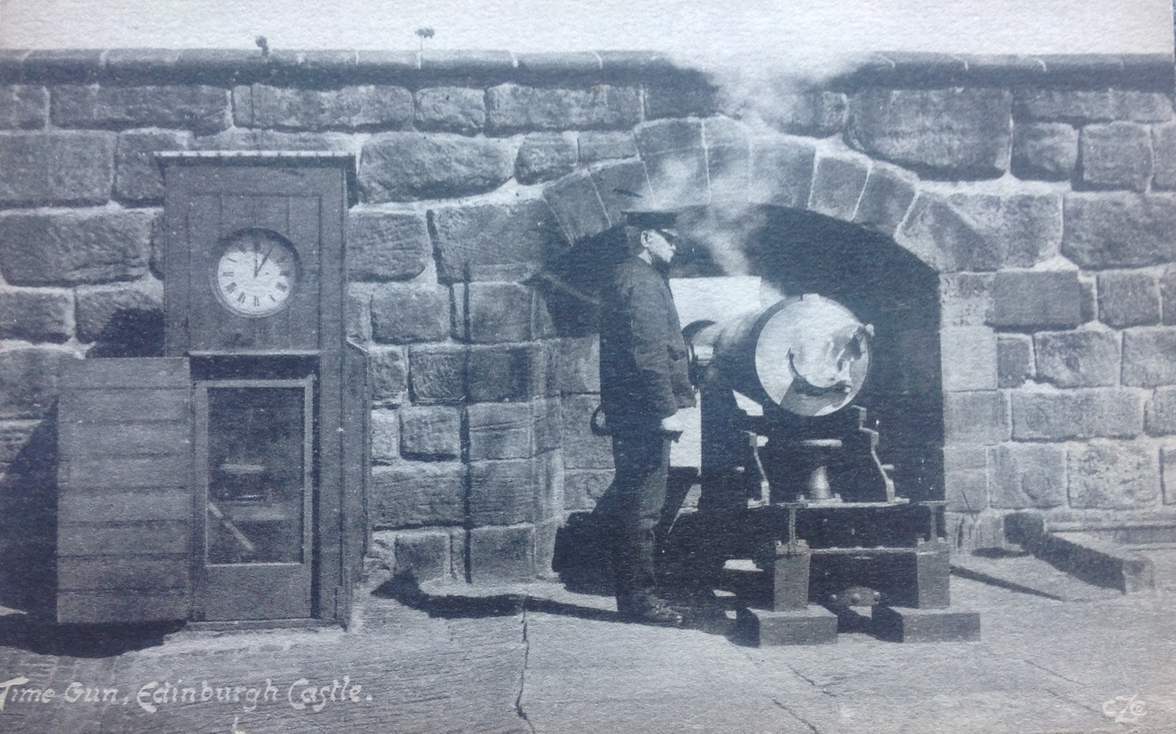 Time gun at Edinburgh Castle, from postcard c1910. An old 32 Pounder Smooth Bore Breech Loading gun (SBBL).